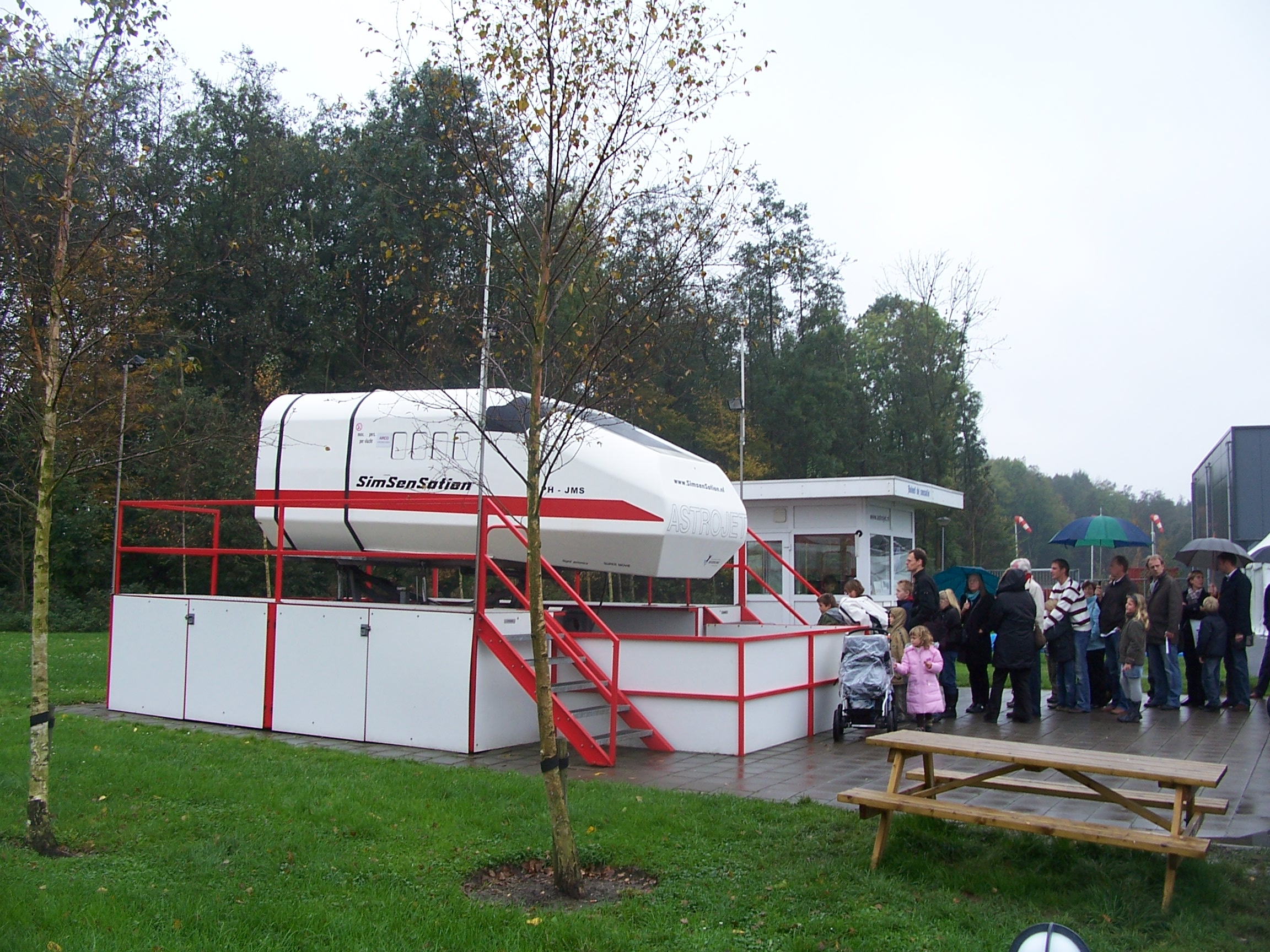 Aviodrome Lelystad - simulator - 2008